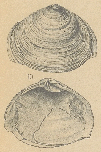 Scrobicularia plana - Fossil bivalved shell from Eemian deposits in the Netherlands